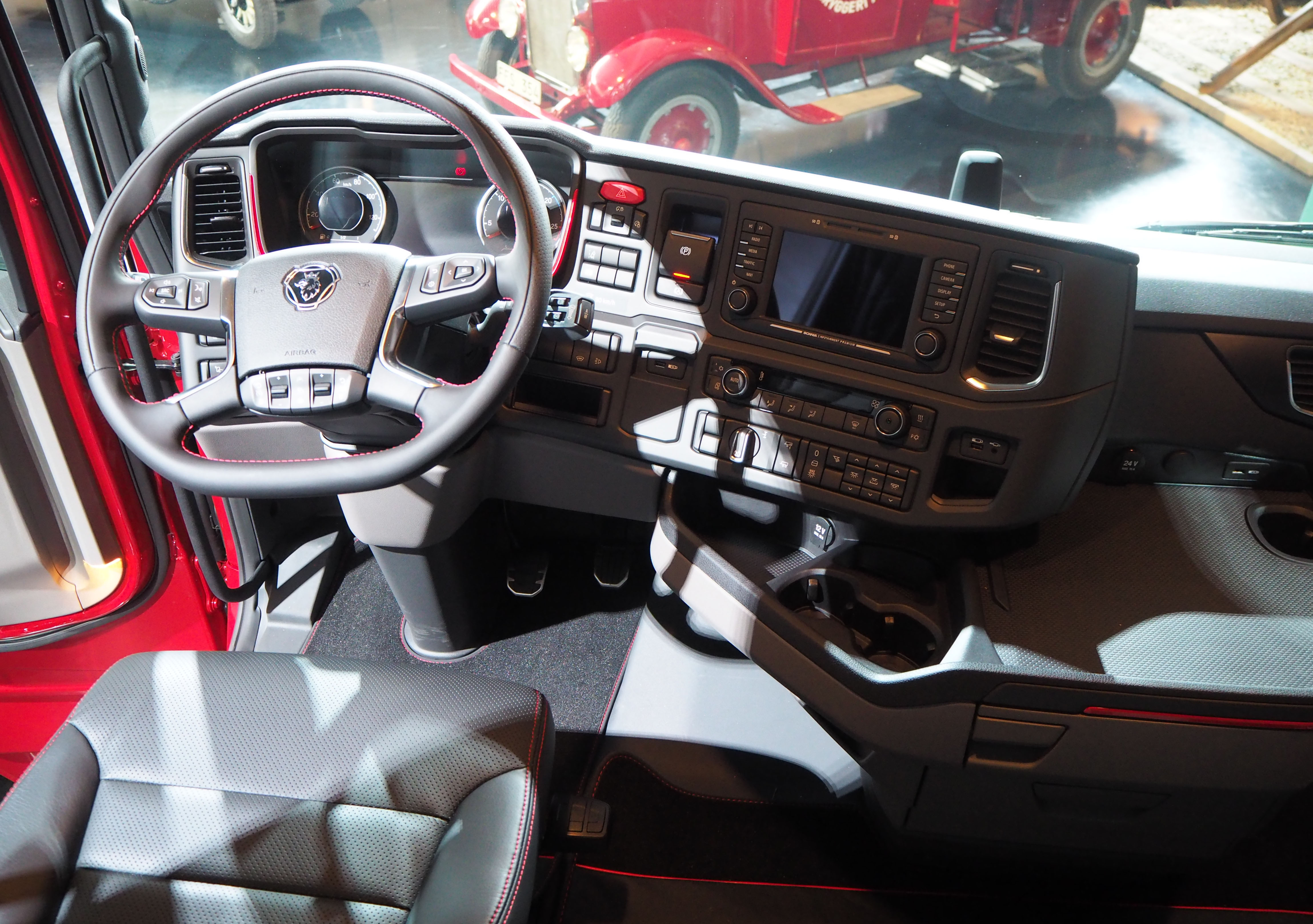 2018 Scania S730 dashboard